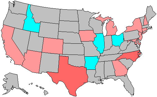 Summary of party change of U.S. house seats in the 1984 House election. Stripes indicate a tie between the gains of two or more parties. Legend: 6+ Democratic seat pickup 3-5 Democratic seat pickup 1-2 Democratic seat pickup 1-2 Republican seat pickup 3-5 Republican seat pickup 6+ Republican seat pickup Note: years ending in 2 may have inconsistent results due to redistricting.